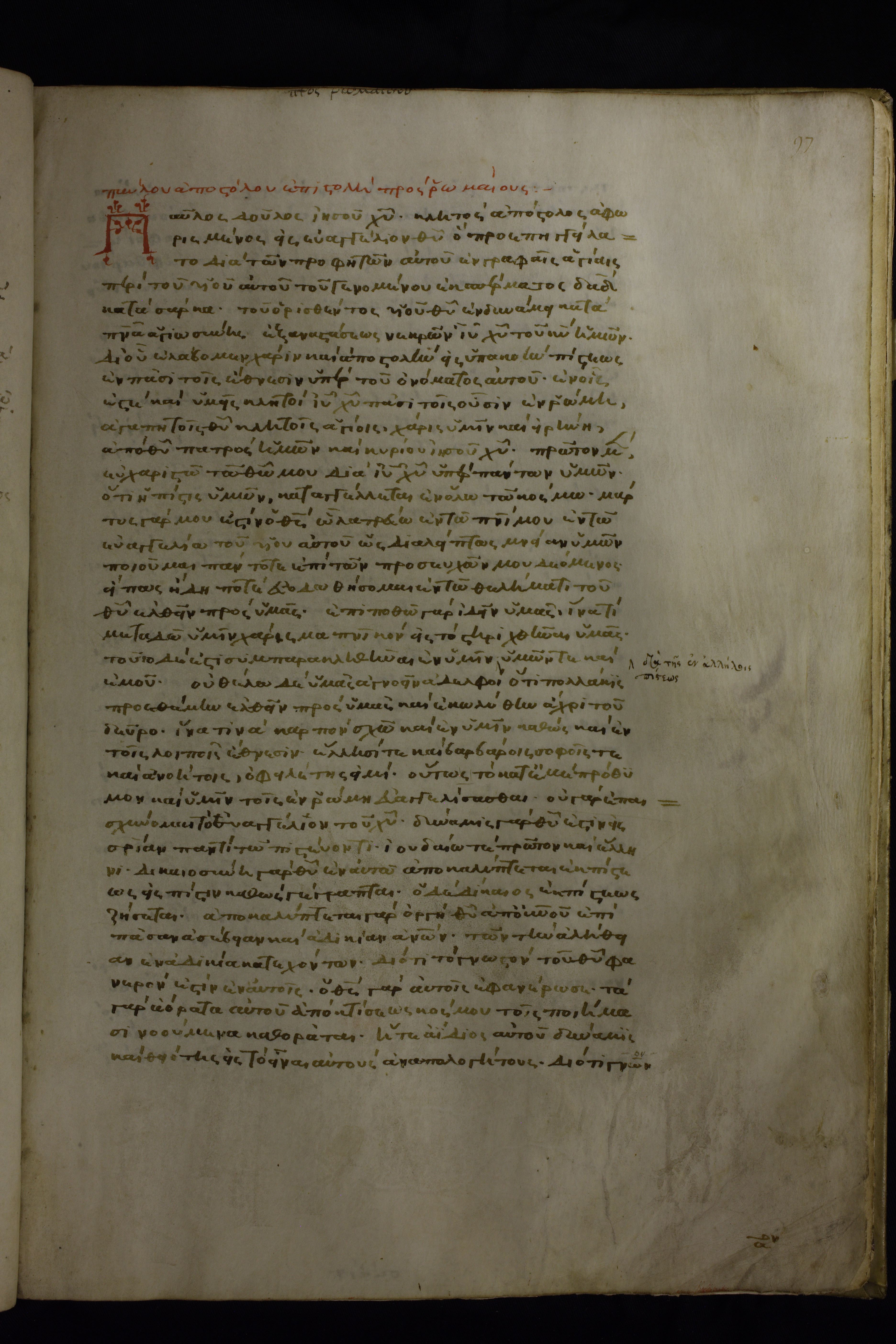 folio 97r; the beginning of the Epistle to the Romans